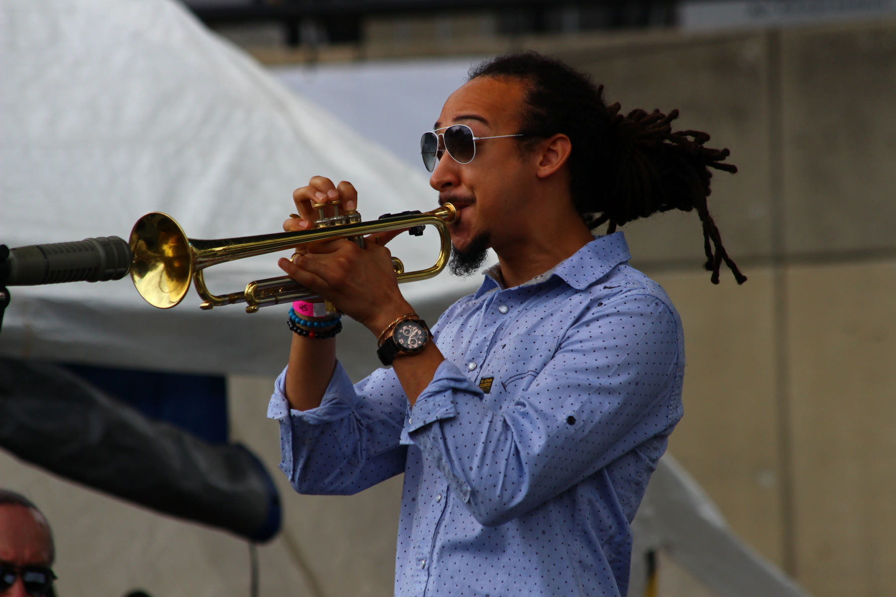 Theo Croker